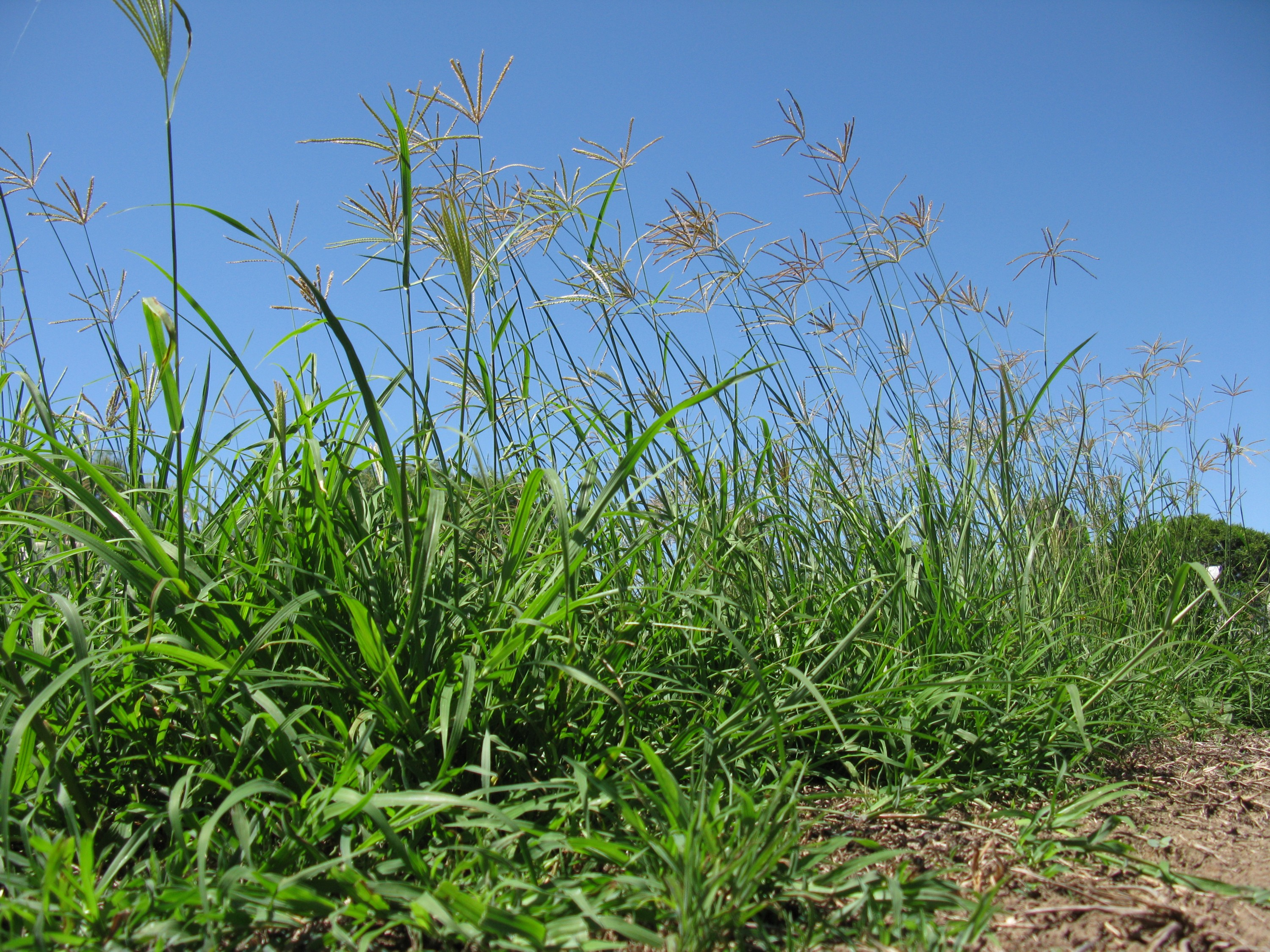 Capable of high yields and has low oxalate levels. Range of varieties that range from pioneering types that are good for soil conservation but are low quality, to higher quality varieties for grazing.